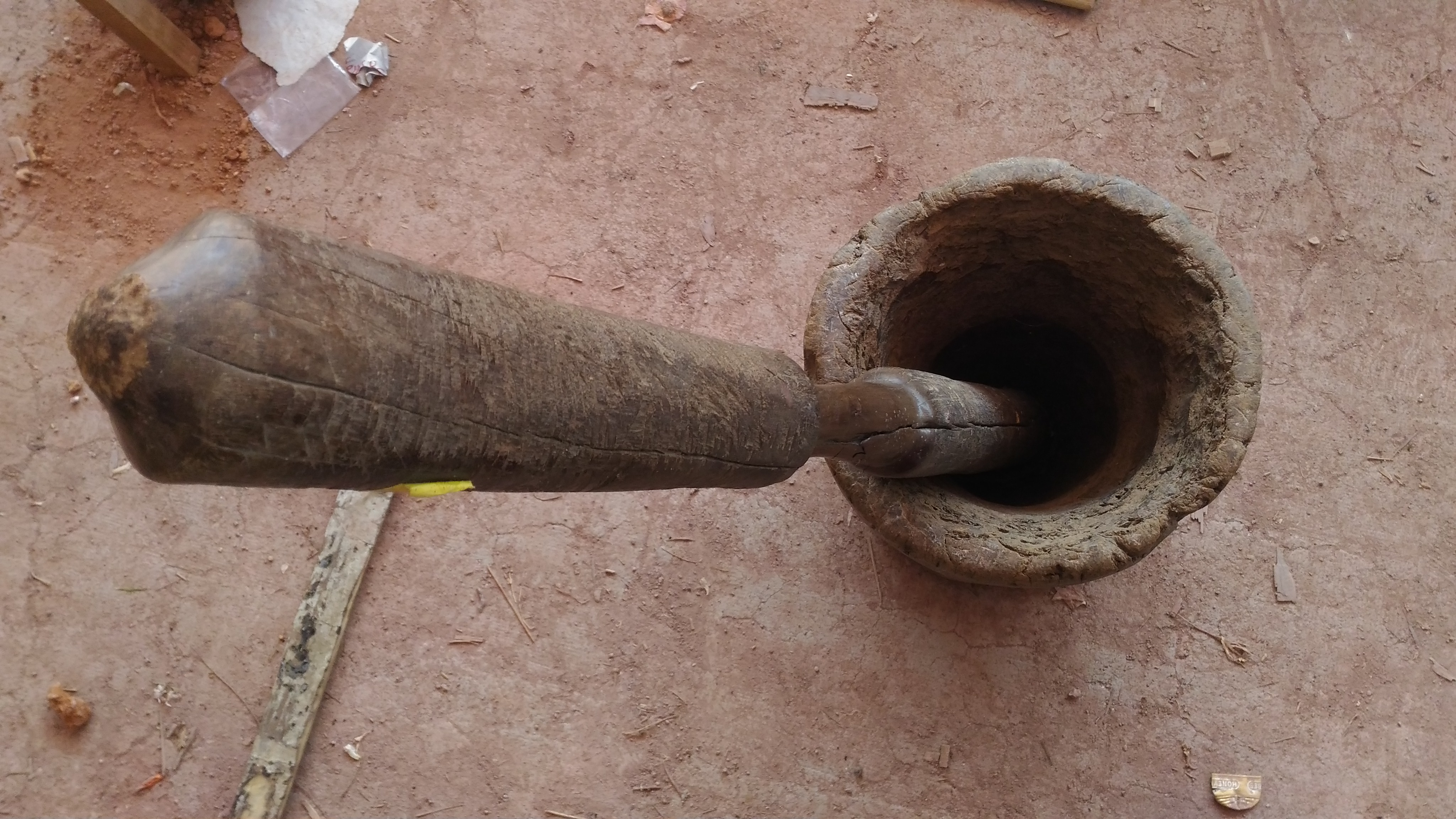 A wooden structure used to crush dried food items